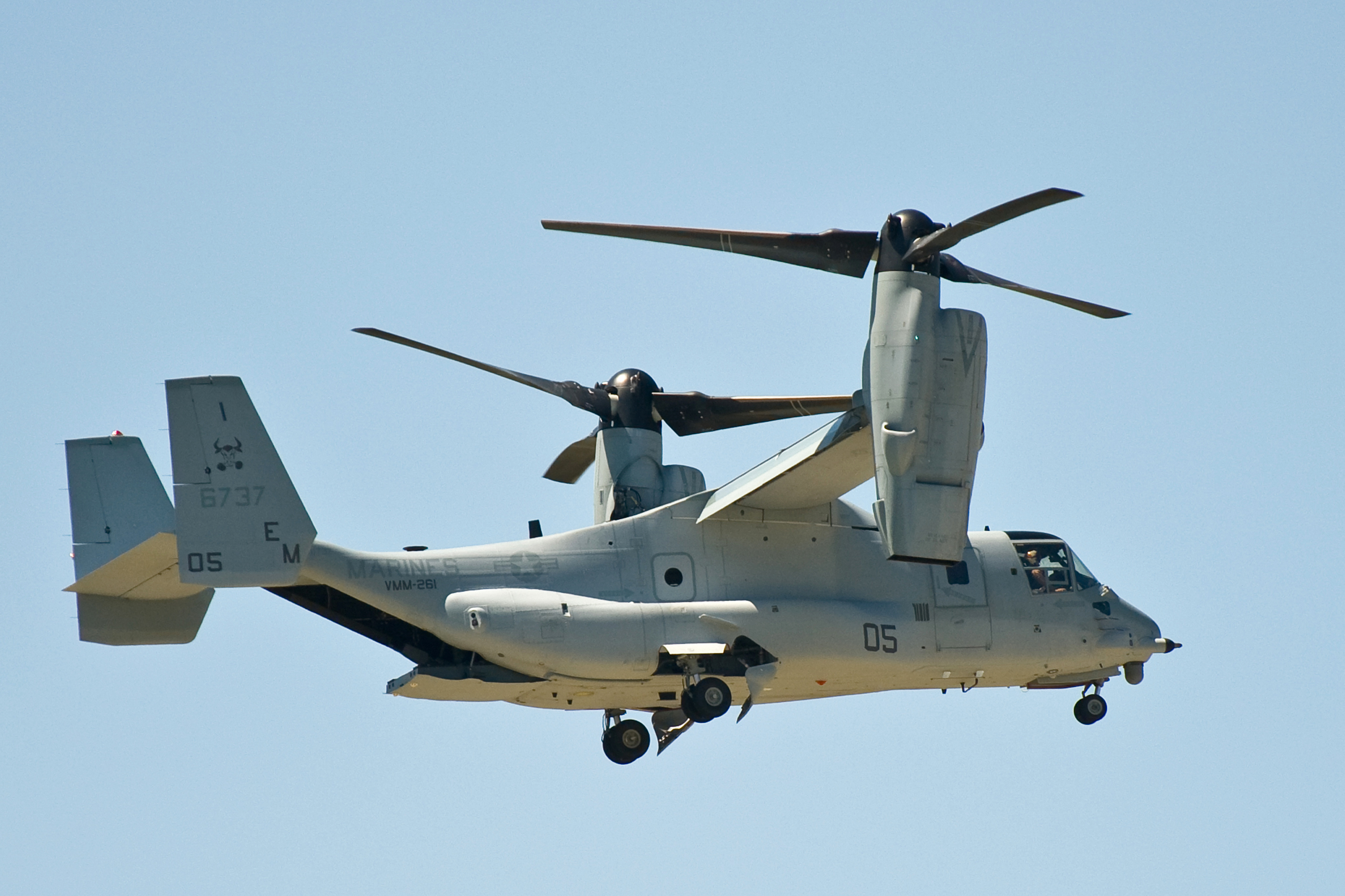 A U.S. Marine Corps Bell/Boeing MV-22B Osprey (BuNo 166737) from Marine medium tiltrotor squadron VMM-261 Raging Bulls over the U.S. Air Force Kentucky Air National Guard flightline at Louisville International Airport, Kentucky (USA), on 17 April 2009. It took part in the "Thunder Over Louisville" air show on the following day.